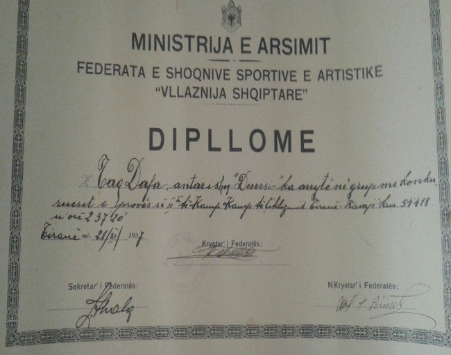 Tirane kavaje